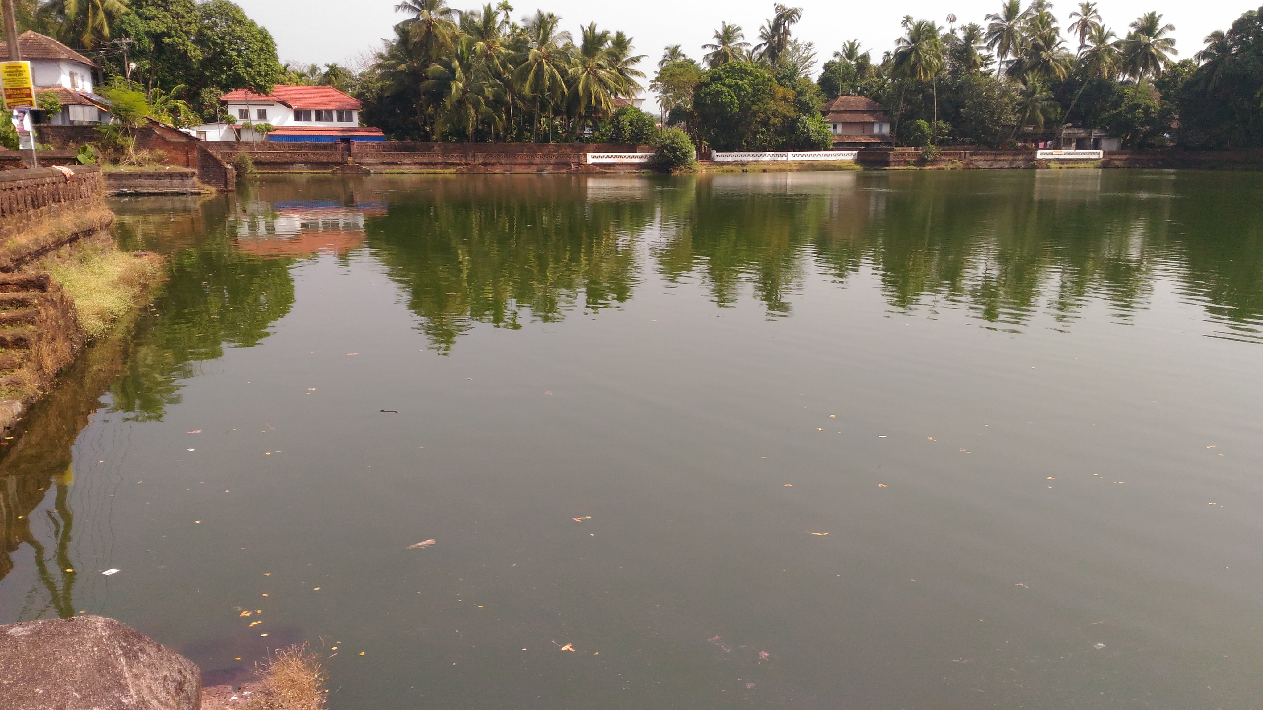 Thaliparambu rajarajeswara temple Pond